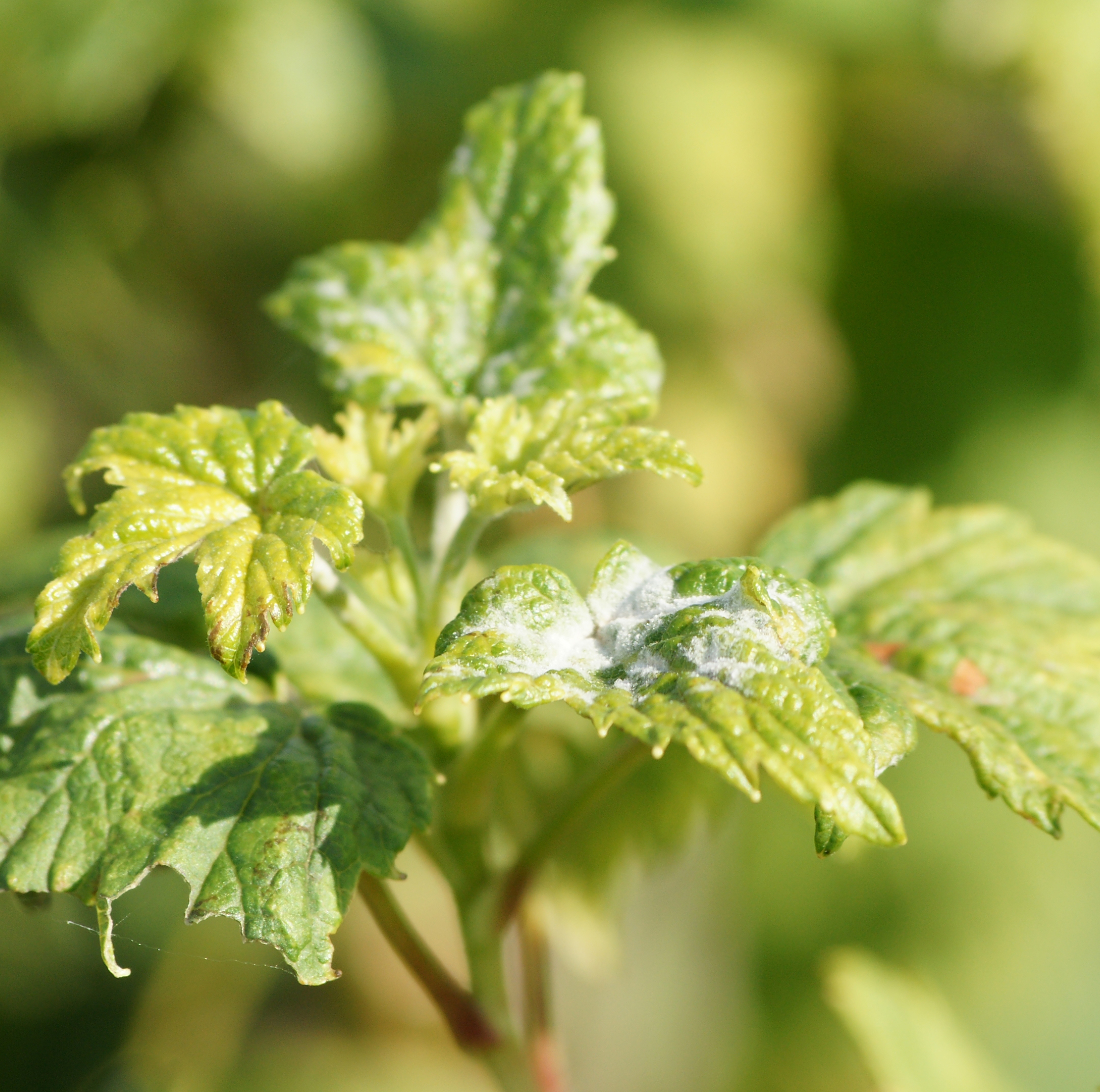 Powdery mildew on leaves of a blackcurrant